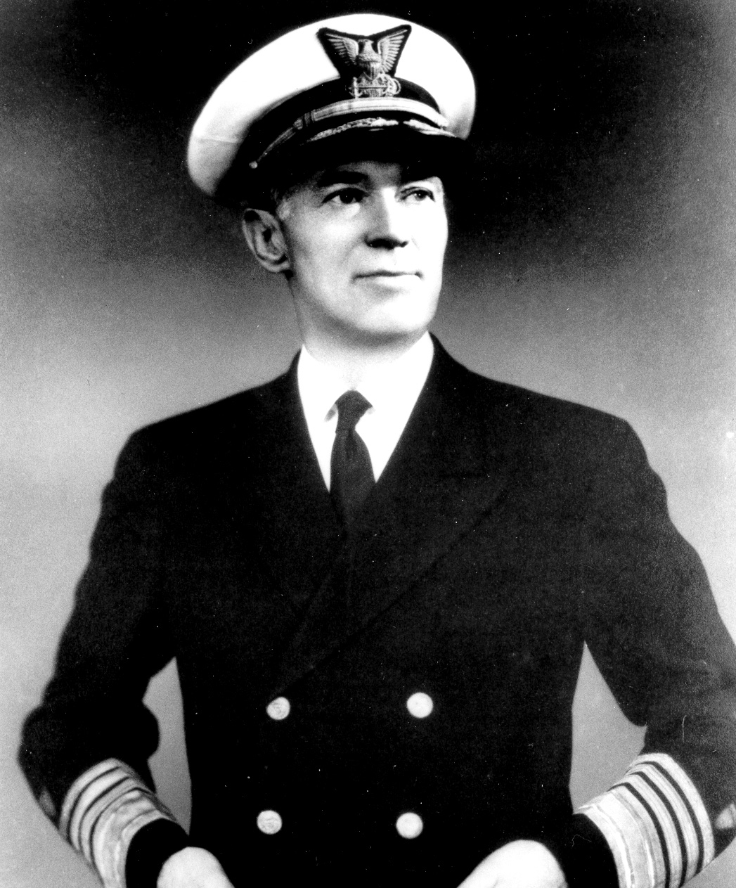 Admiral Russell R. Waesche, Sr., USCG